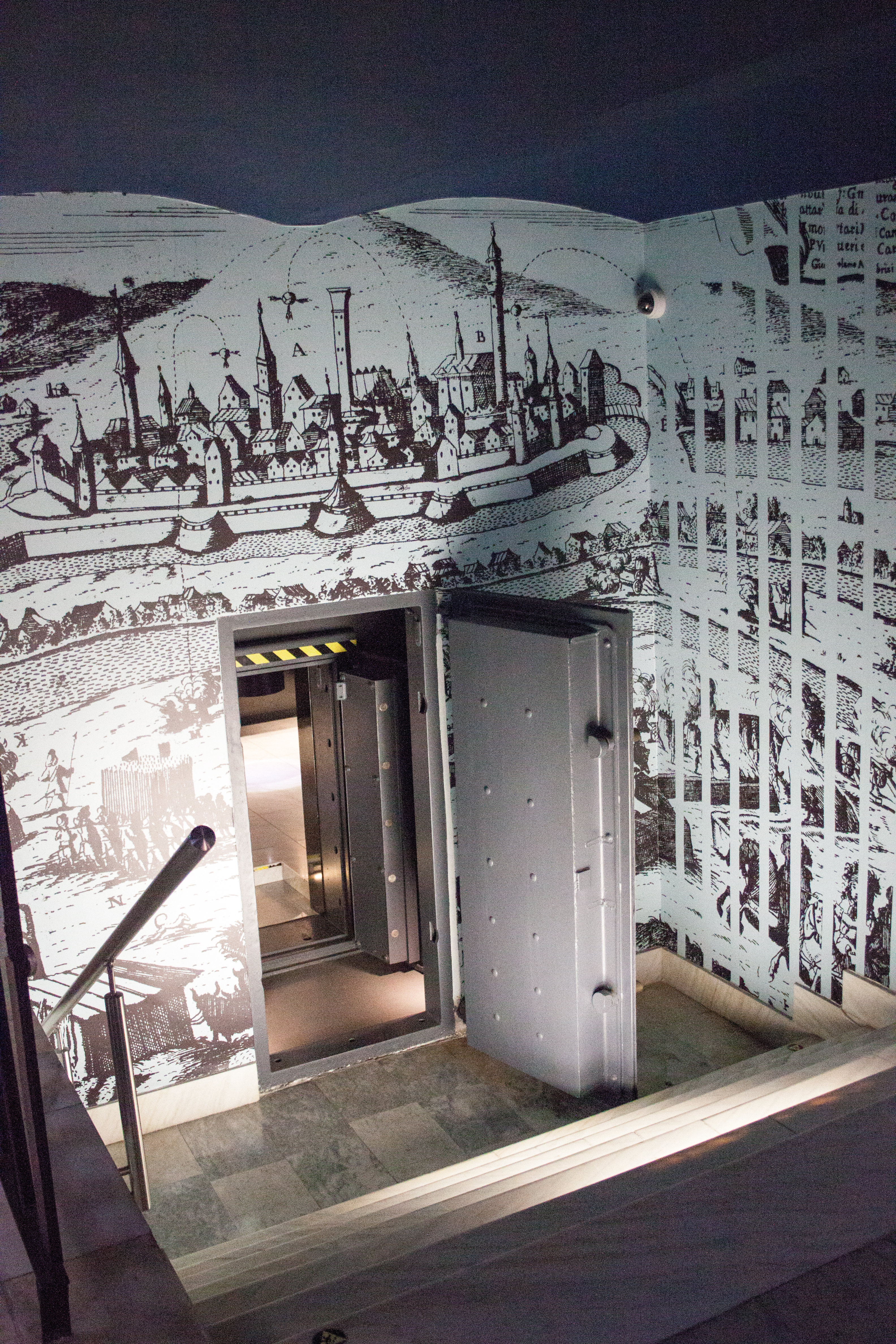 The golden treasure of Kosice in the East Slovak Museum - entrance to the strong-room